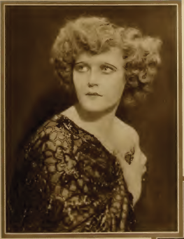 Juanita Hansen Motion Picture Classic 1920